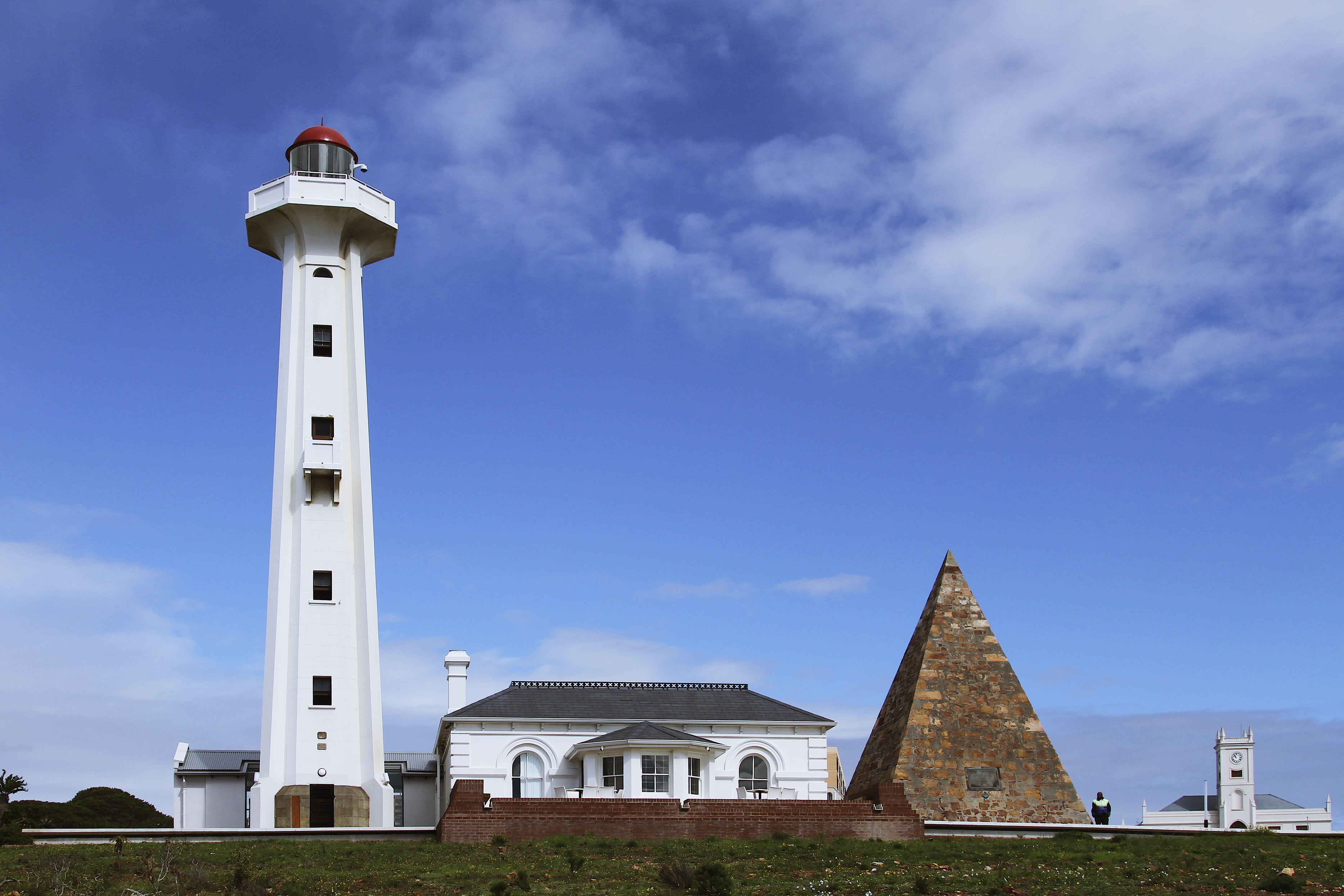 Donkin Memorial and Lighthouse in Port Elizabeth, South Africa